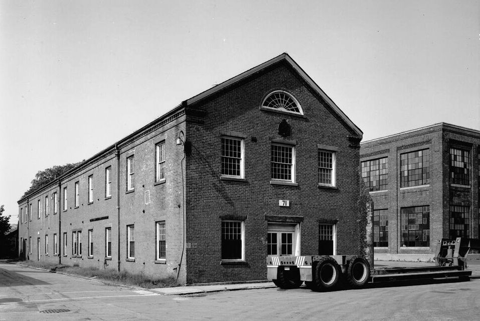 Photograph of Building #71, Watertown Arsenal, Watertown, Massachusetts, USA.